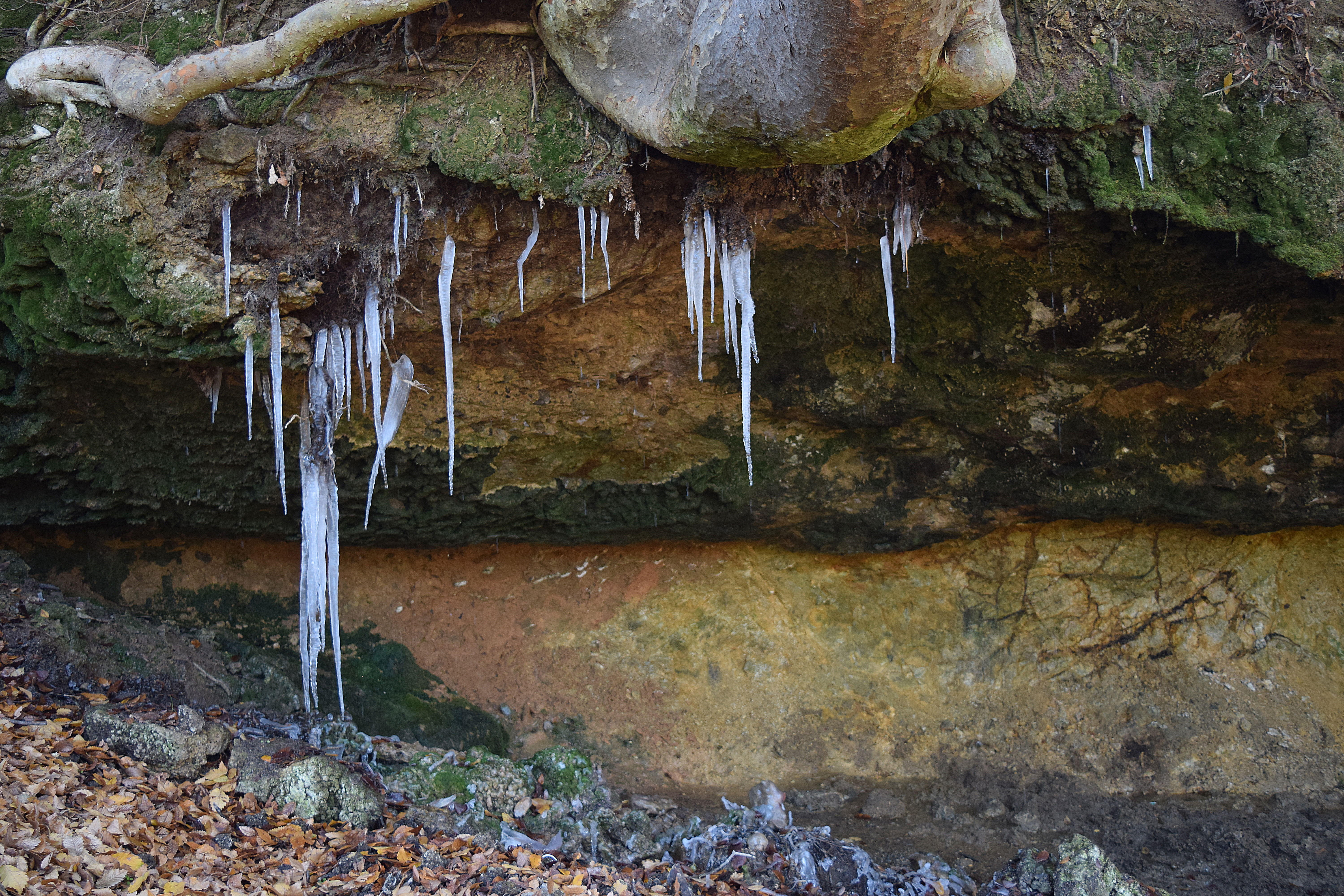 Shrshran, Aygestan